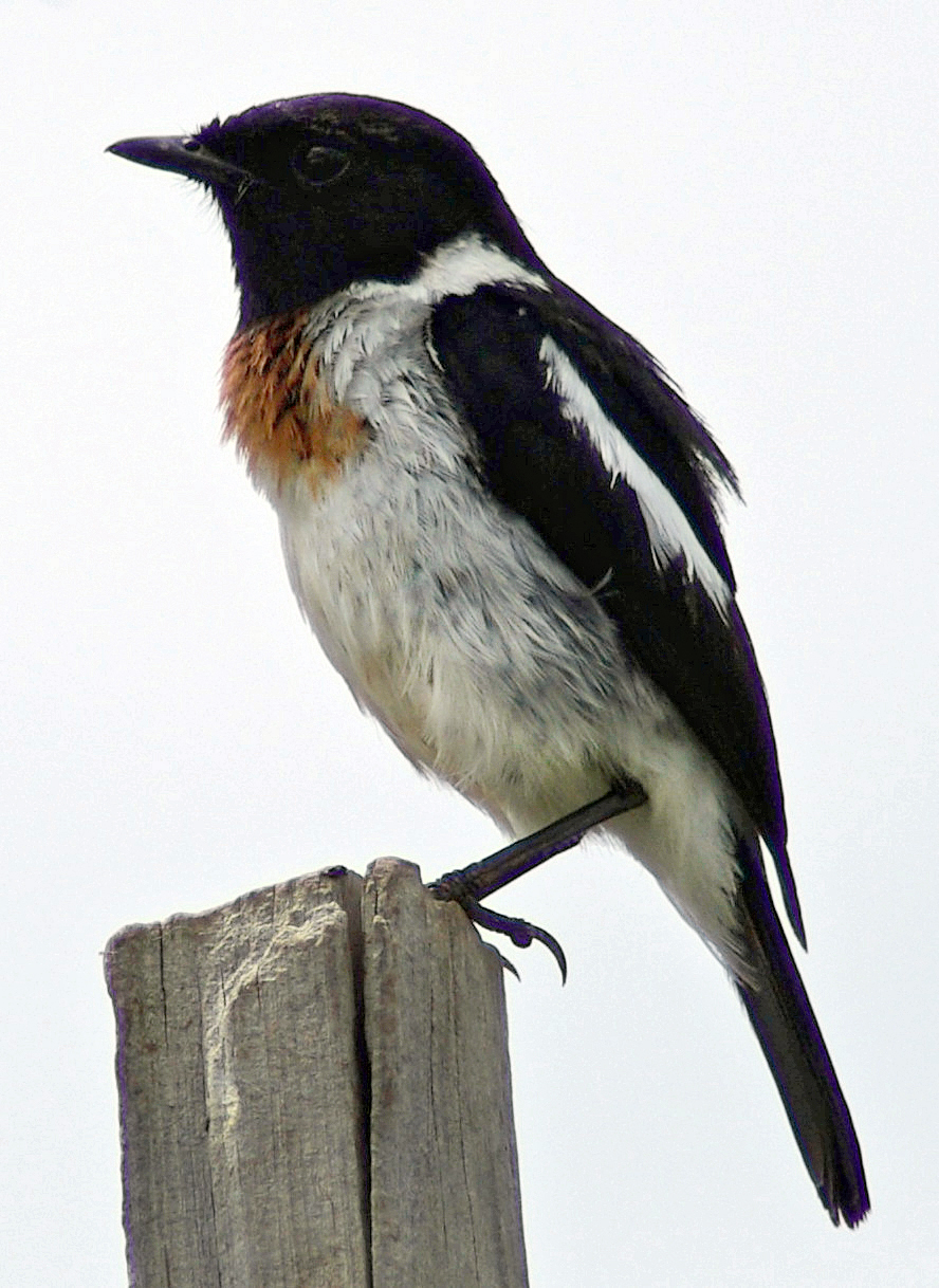 African Stonechat or Common Stonechat (Saxicola torquatus axillaris), somewhere near Nanyuki, Kenya. The time stamp is 10 hours too early. This is lighter than the previous version.